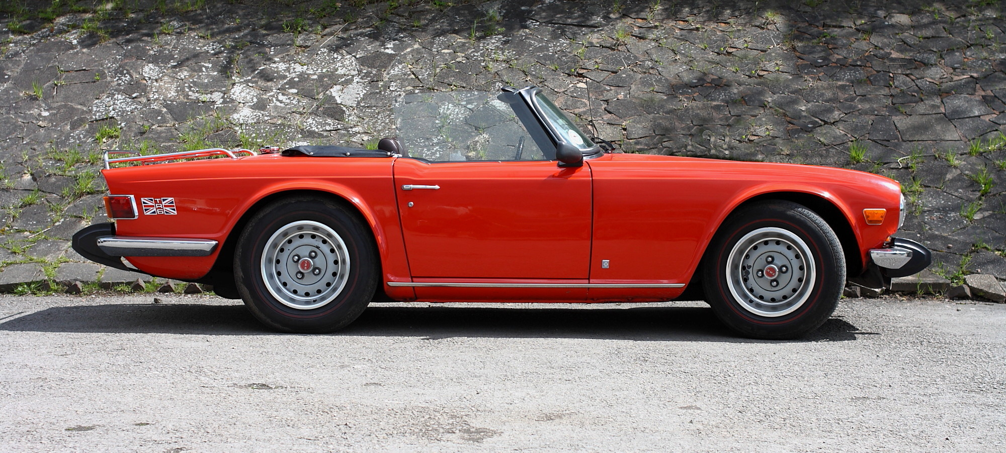 Posted for the pleasure of Norfolk Belle and the" Wish I had bought one" regrets of Don (Outlaw13)